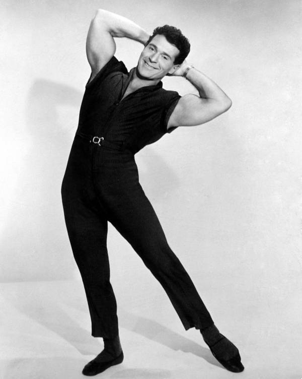 Publicity photo of Jack LaLanne